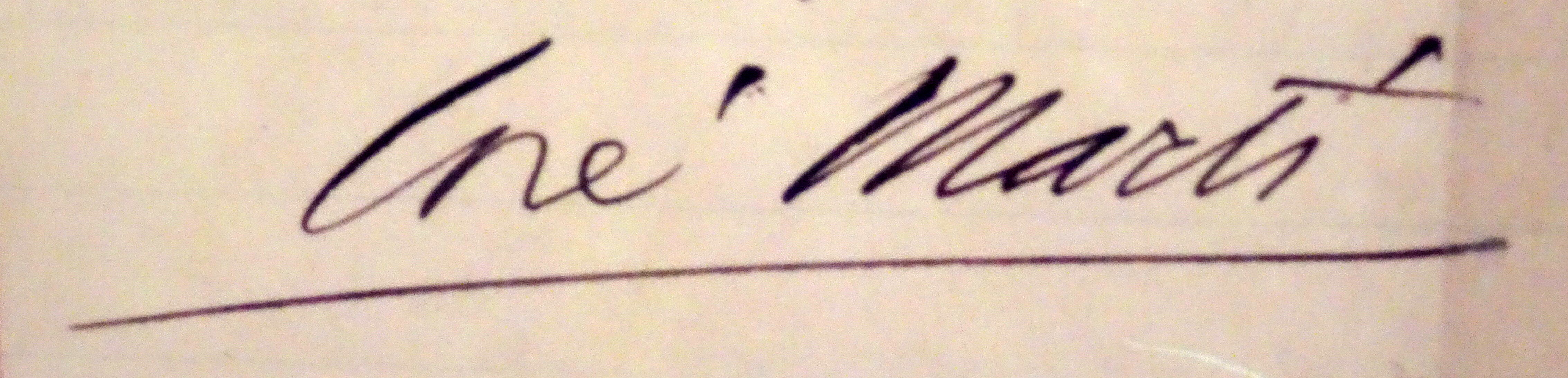 The signature of José Martí in his letter to Maximo Gomez, dated 20th October 1884 and written in New York.